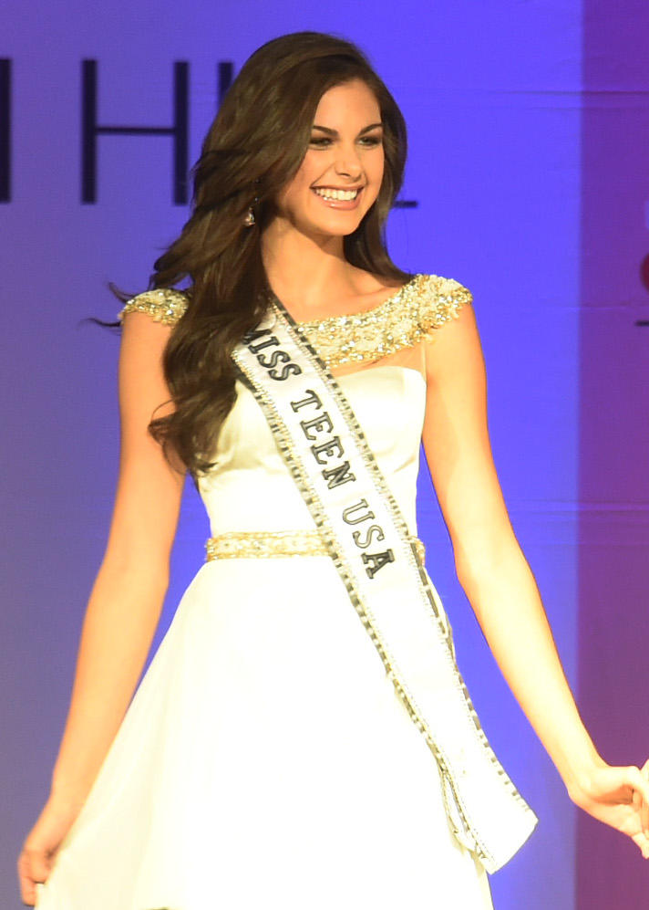 Katherine Haik, 2015 Miss Teen USA shows her appreciation to the attendees of the USO sponsored Operation That’s My Dress event in Las Vegas, Aug. 30, 2015. More than 800 active duty females, spouses, and teenage daughters participated in the two-day event. (U.S. Air Force photo by Tech. Sgt. Nadine Barclay)